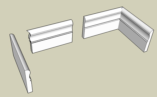 A coped joint in a moulding (skirting). Image by SilentC